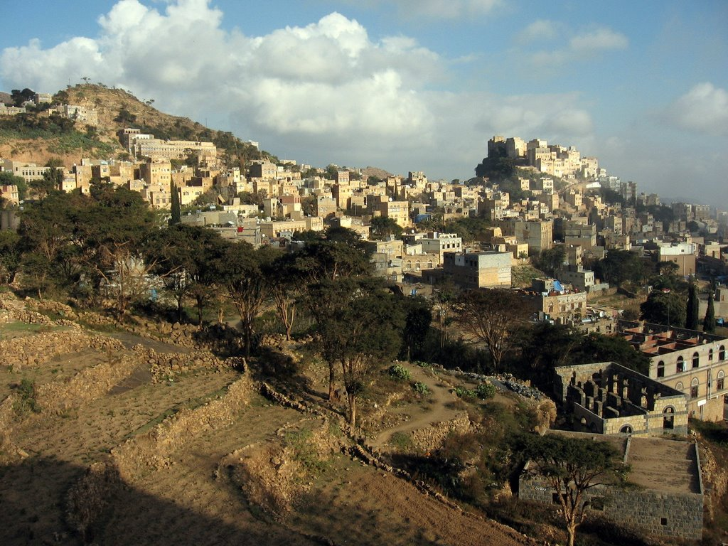 Al Mawhit from our campsite